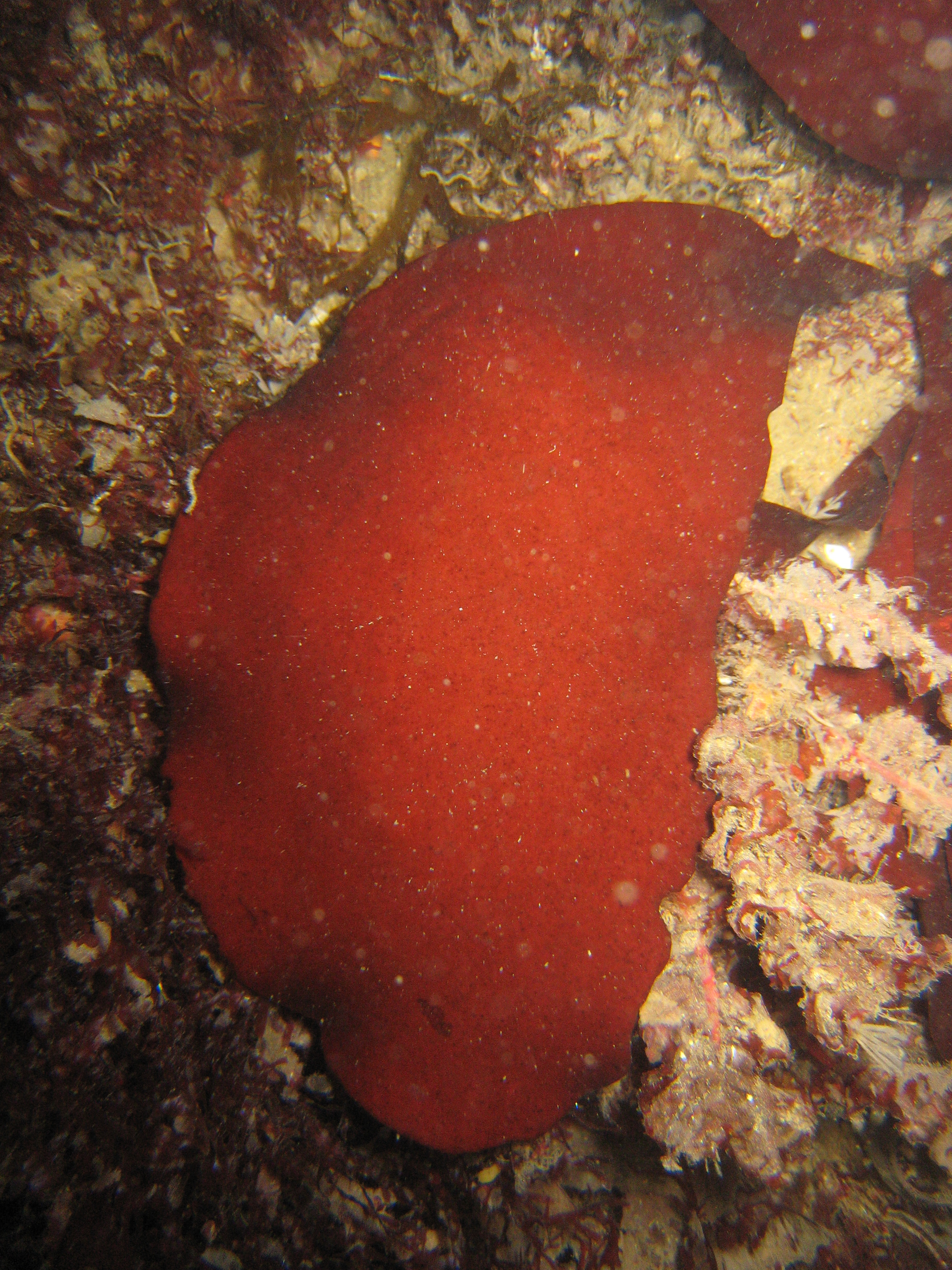 Dilsea carnosaa in Carantec.